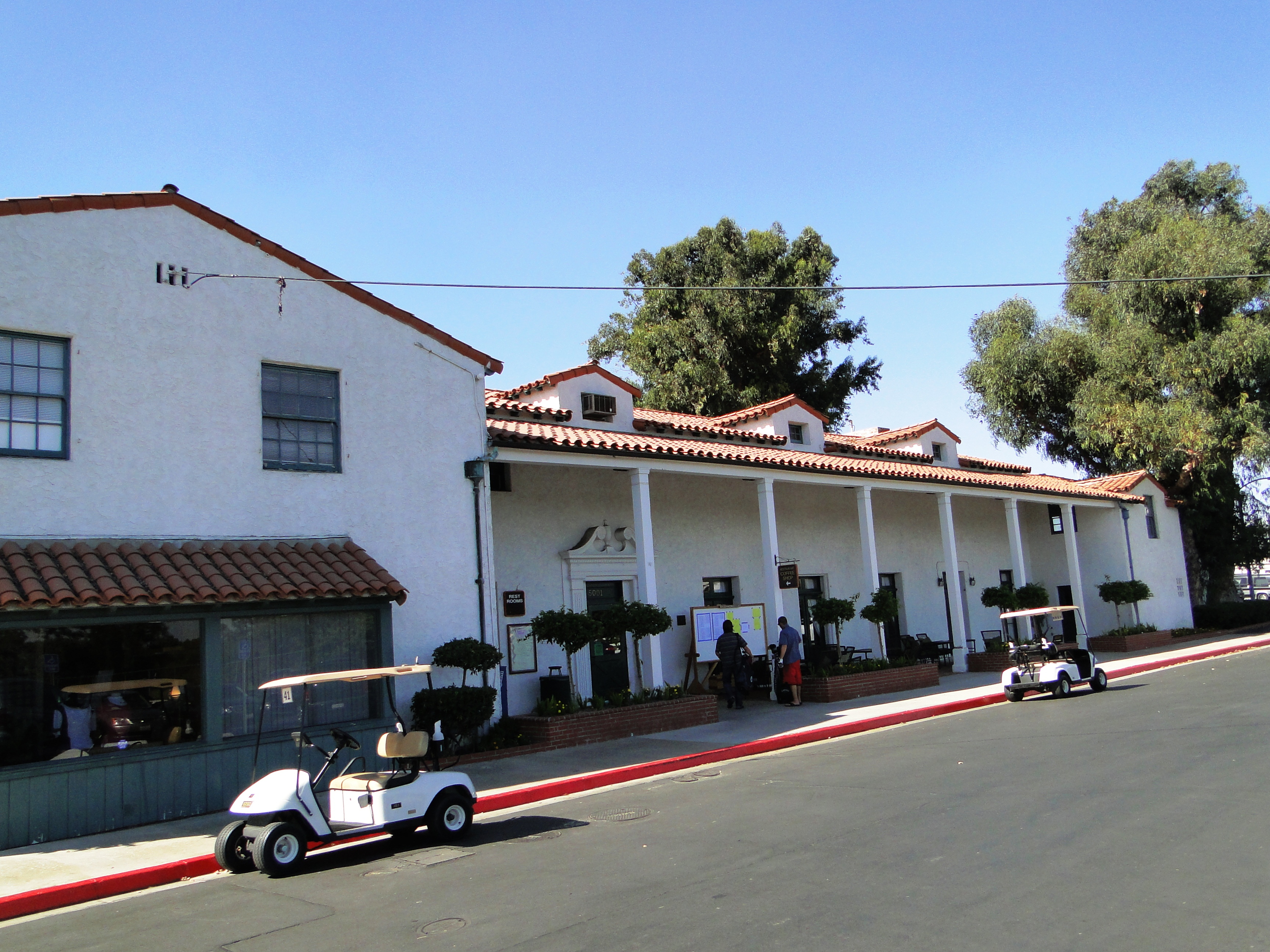 Recreation Park Golf Course Clubhouse, 4900 East 7th St., Long Beach, California, Long Beach Historic Landmark # 16.52.070